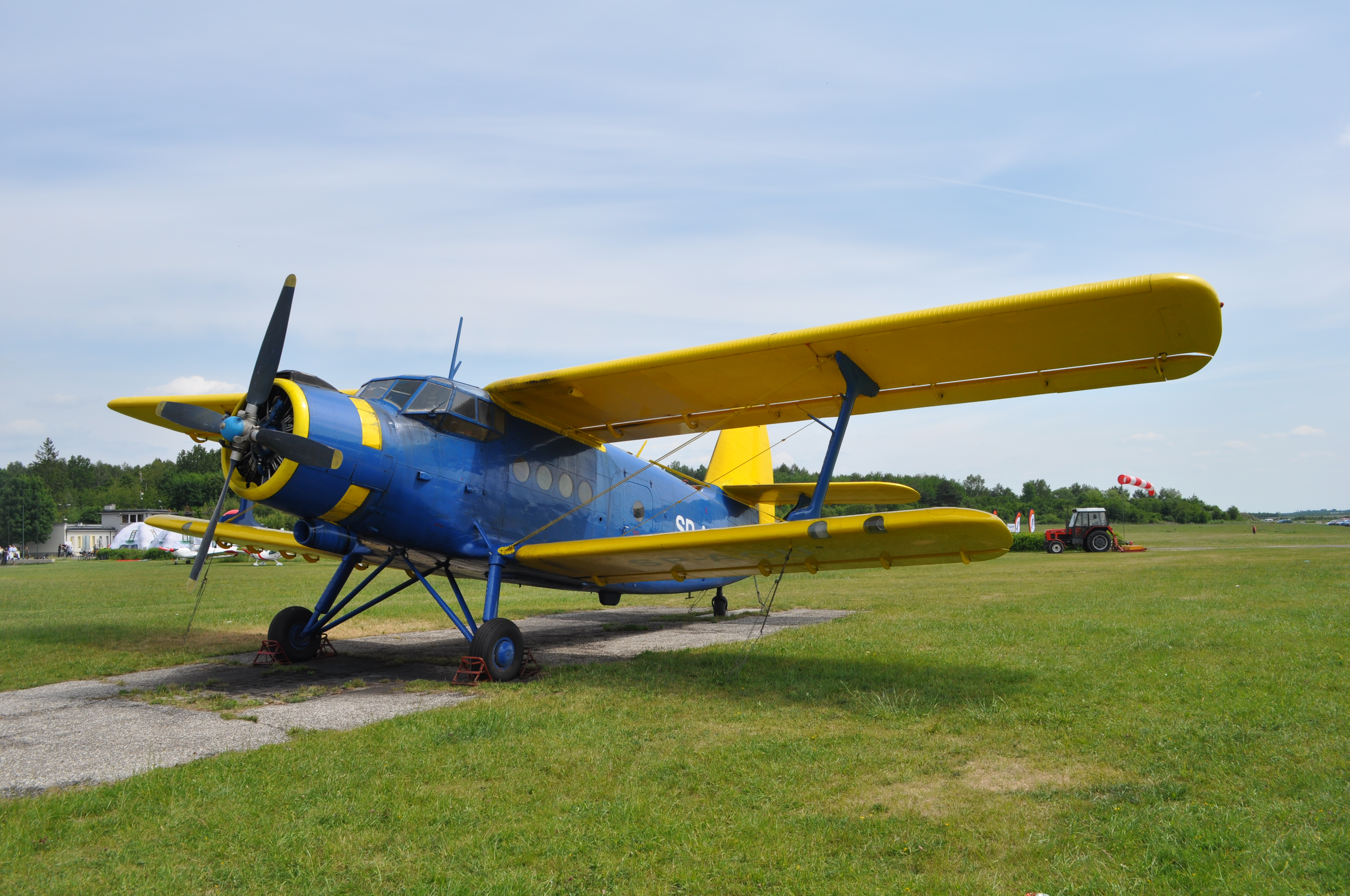 Antonov An-2 at ParaRudniki 2012